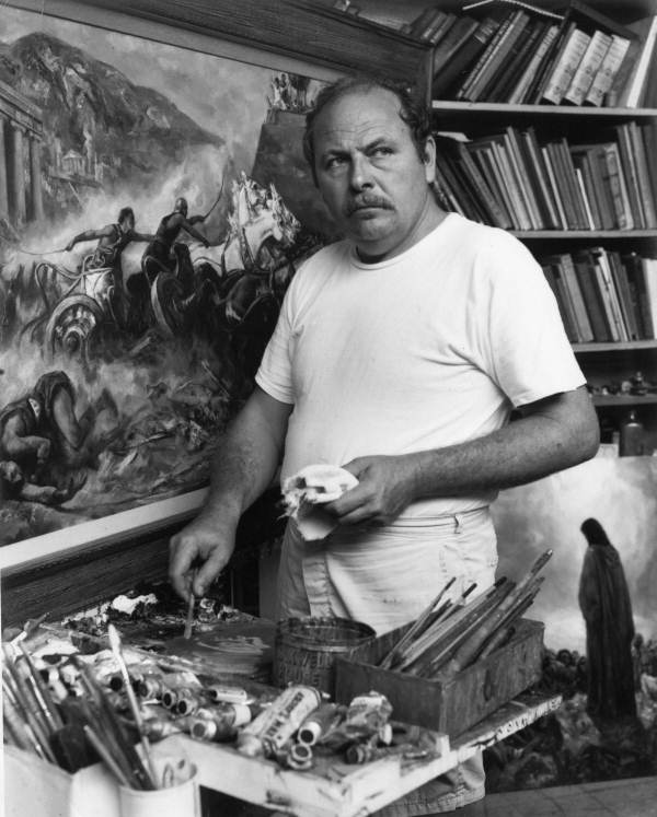 Ben Stahl at his studio in Sarasota painting Ben Hur